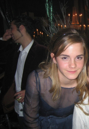 A fan made photo of Emma Watson at the premiere of Harry Potter and the Goblet of Fire.